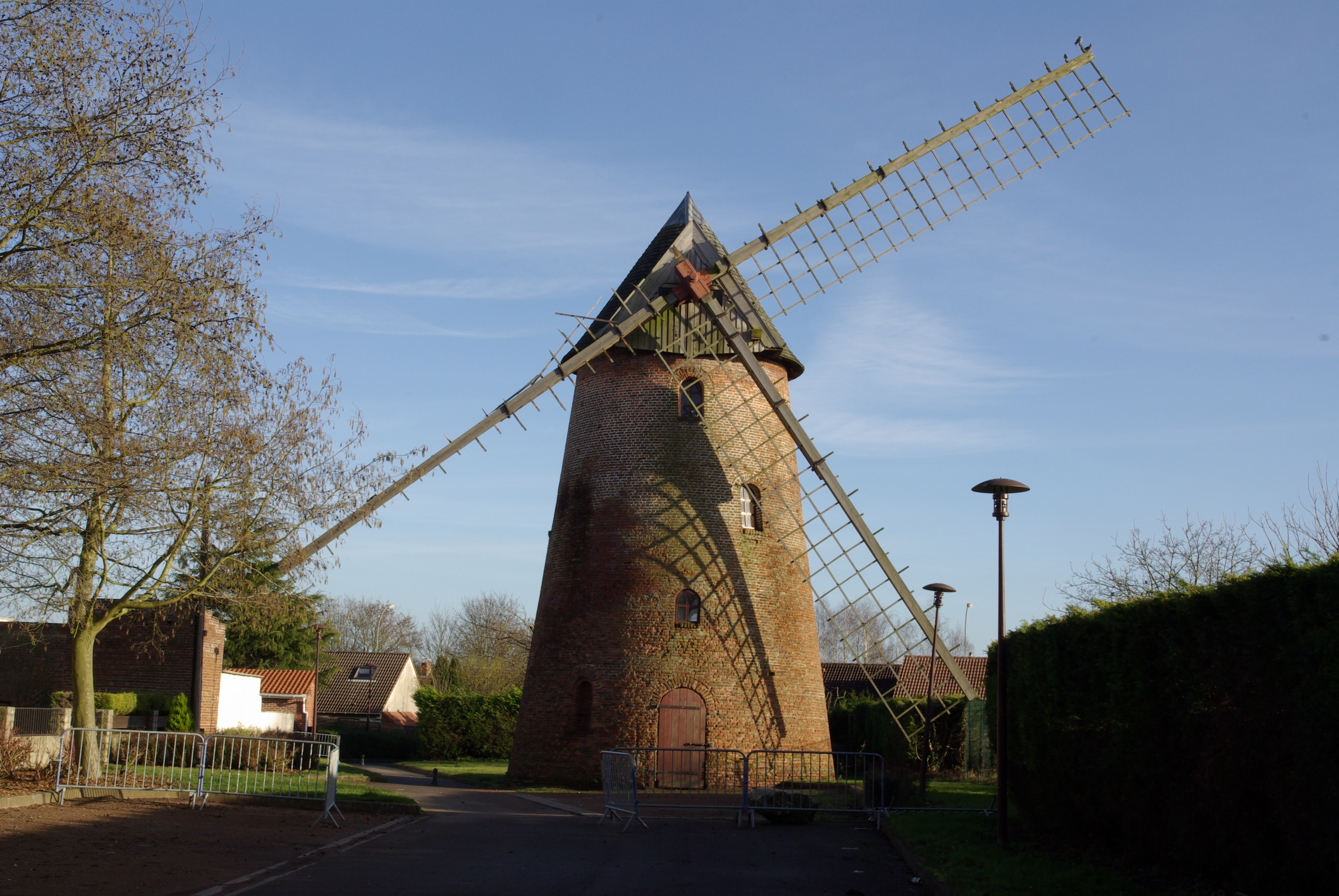 Restored mill